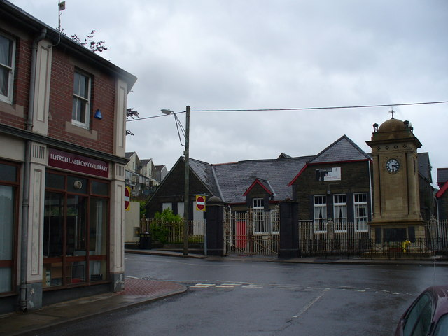 Abercynon, Rhondda Cynon Taff, Wales